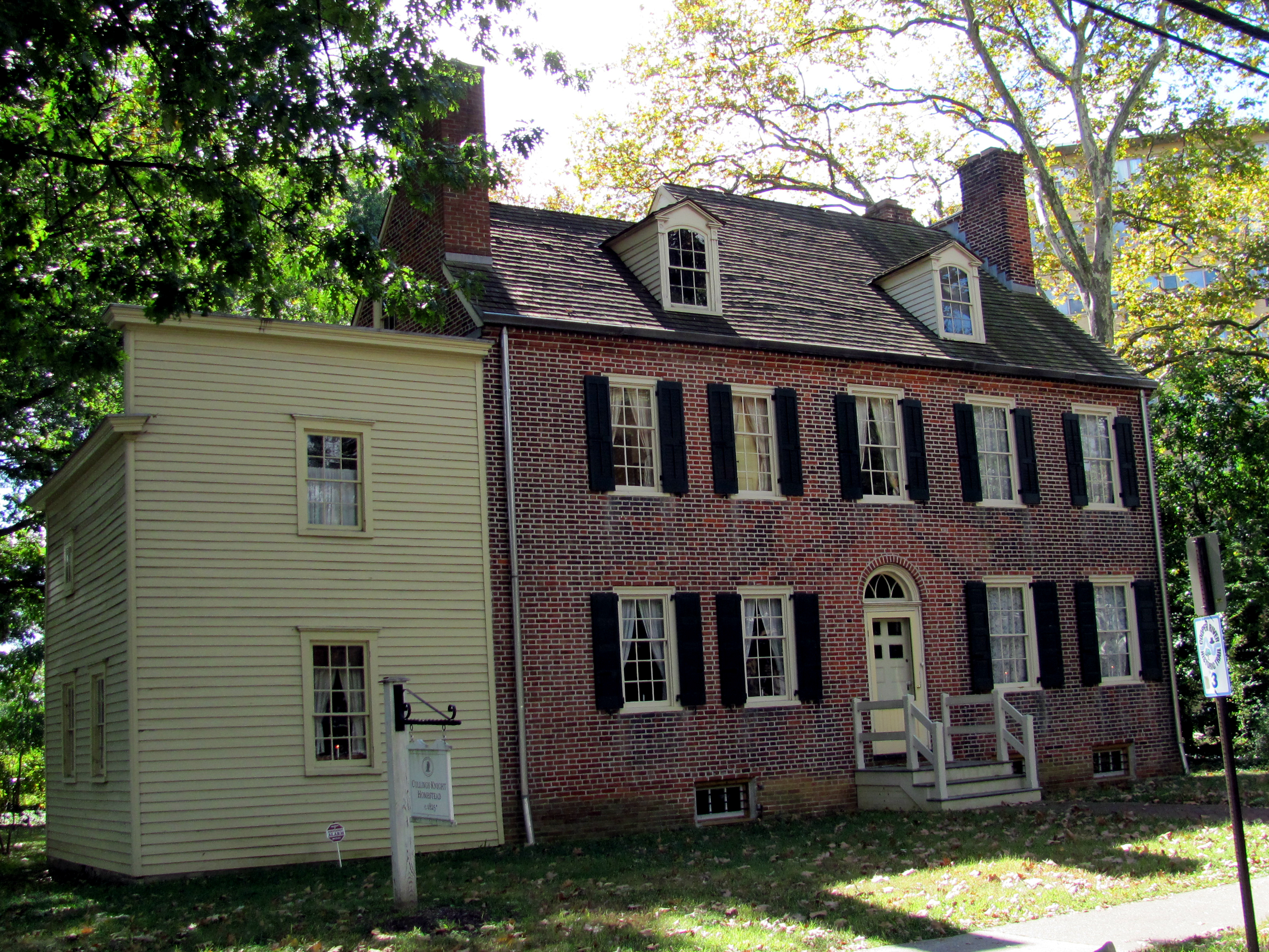 View of Collings-Knight Homestead, 500 Collings Ave. Collingswood, New Jersey looking south from Collings Avenue.